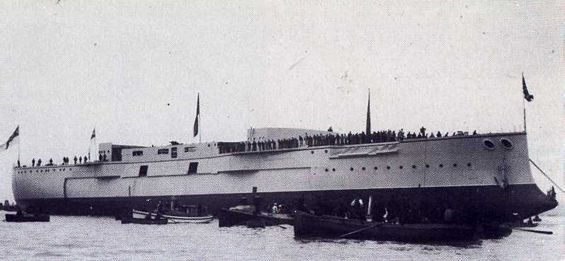 Launch of HMS Canopus (1897) at Portsmouth Dockyard on 13 October 1897